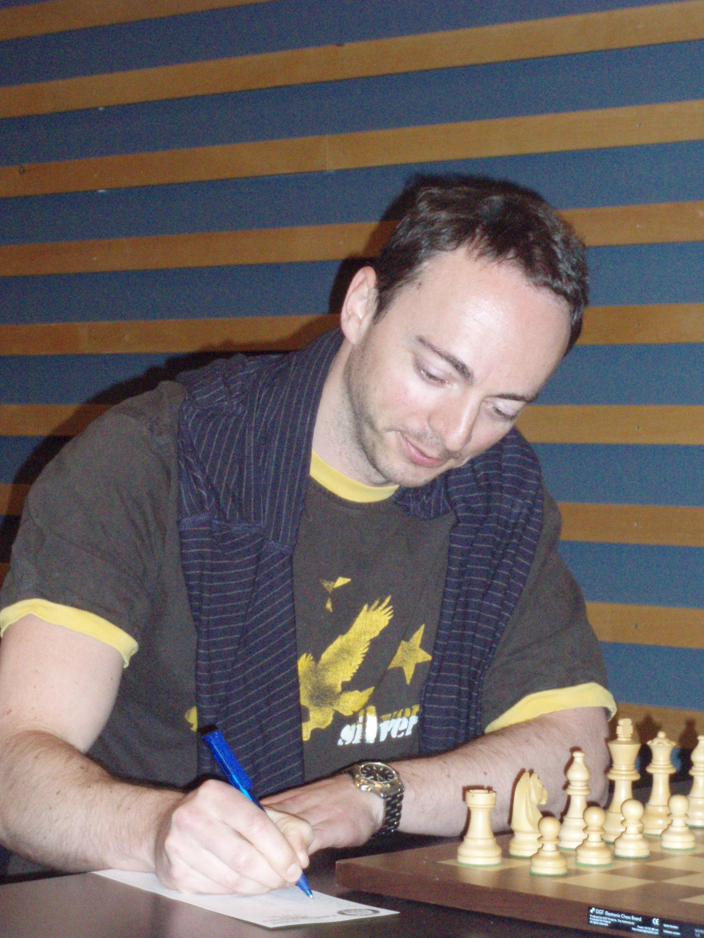 Frode Elsness at the Norwegian Chess Championship at Hamar 2007 Frode Elsness, NM på Hamar 2007